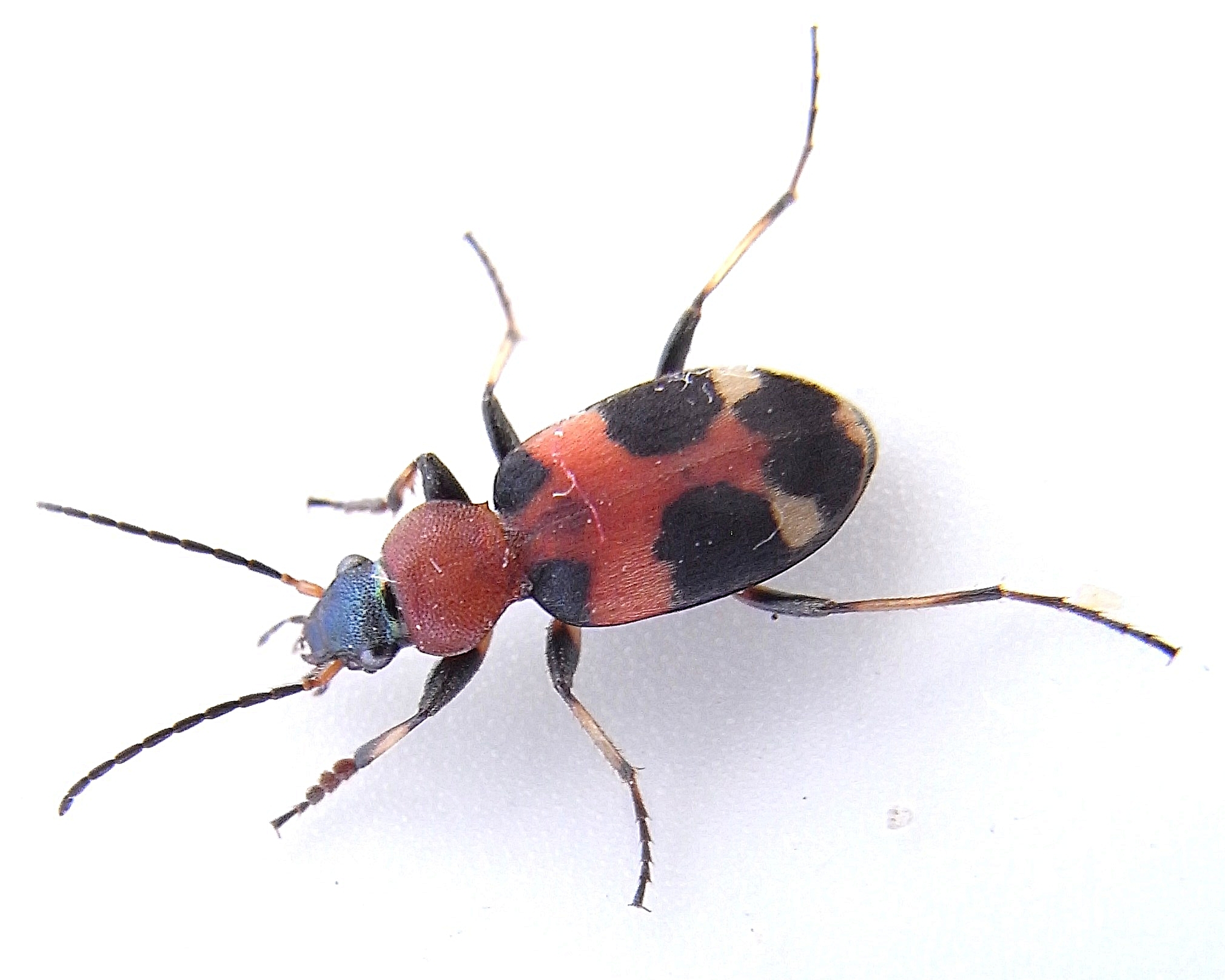 Callistus lunatus from South-East-Hungary near Csanadalberti at 2010-05-25